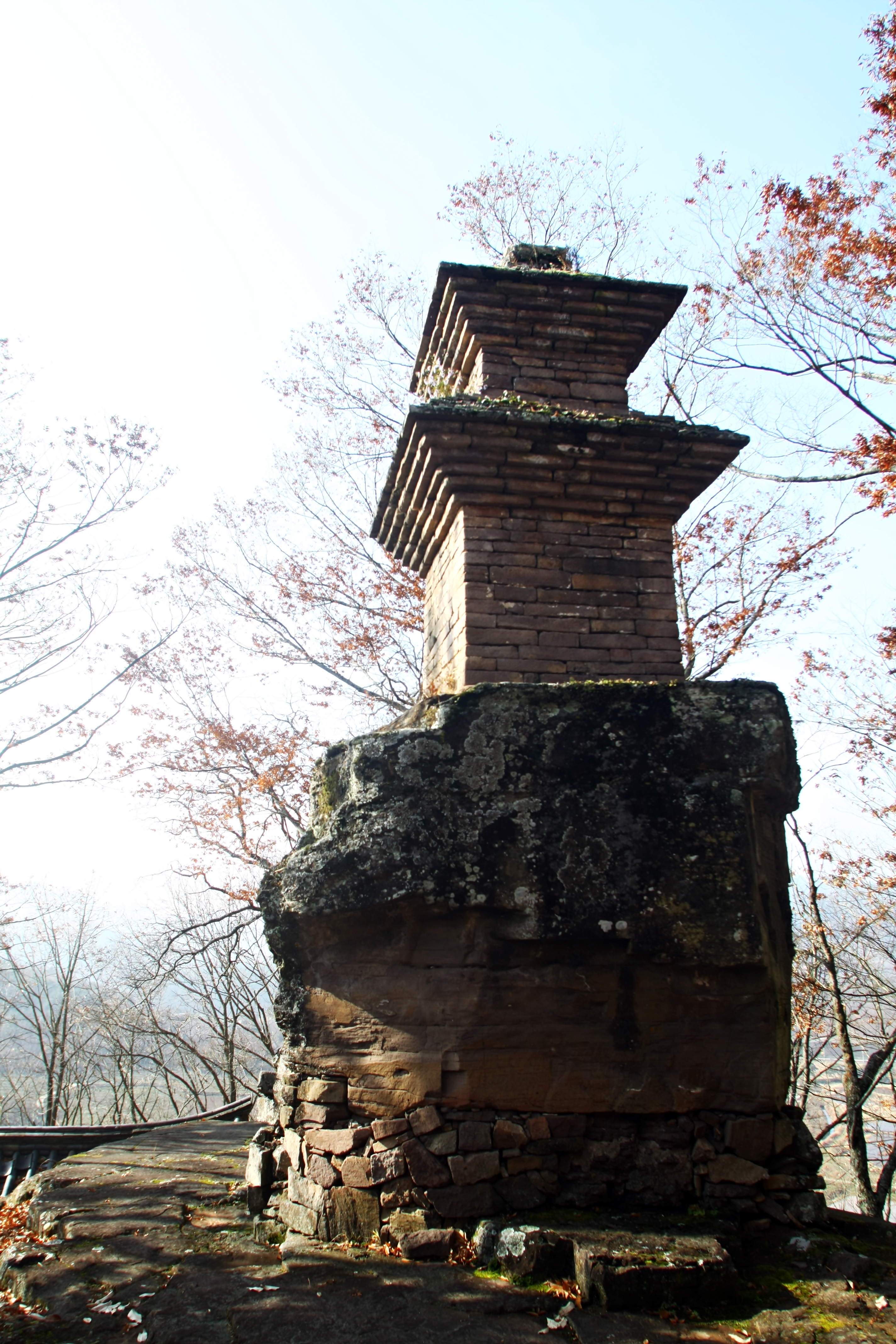 Stone Brick Pagoda at Samji-dong, Yeongyang in South Korea